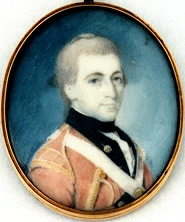 Anonymous miniature of Patrick Ferguson, c. 1774-77, from a private collection.